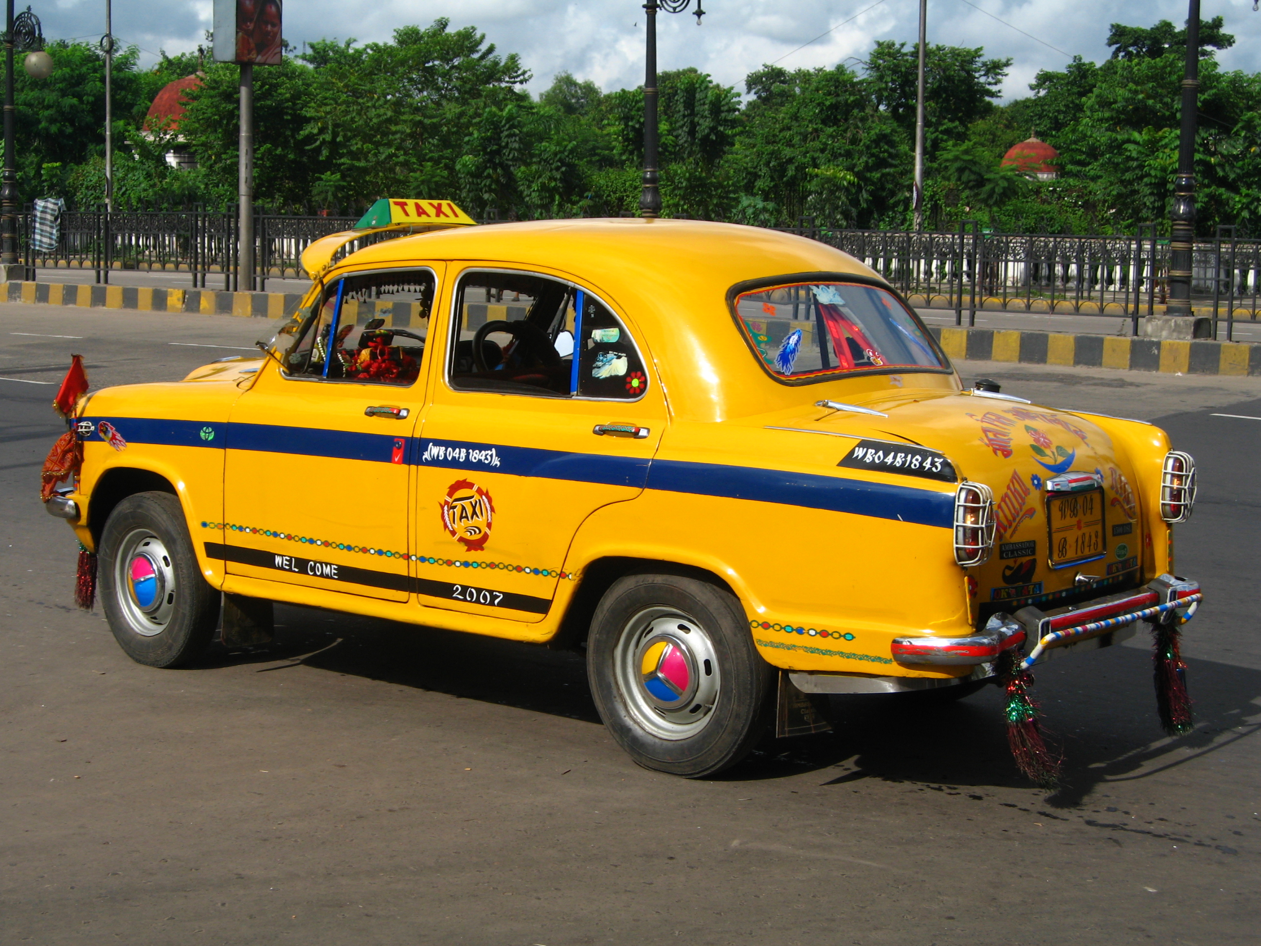 Hindustan Ambassador Classic 1500 DSL, Kolkata, India